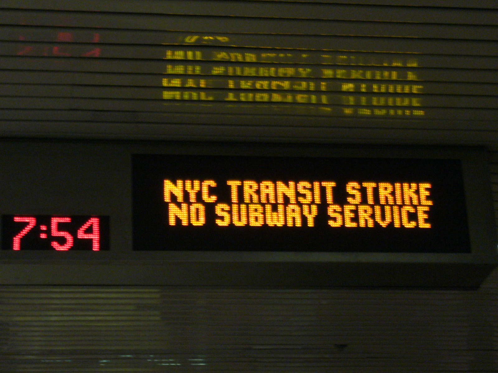 NYCT sign during the 2005 strike